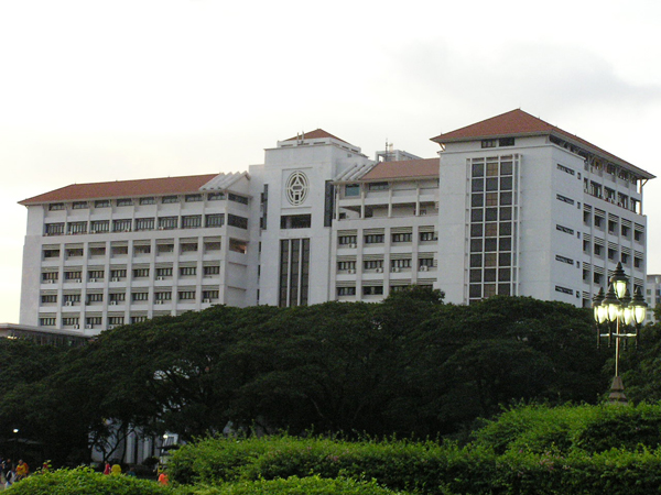 Faculty of Architecture, Chulalongkorn University, Bangkok, Thailand